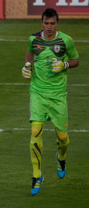 Fernando Muslera during the match between Uruguay NT and Chile NT on 11/11/11